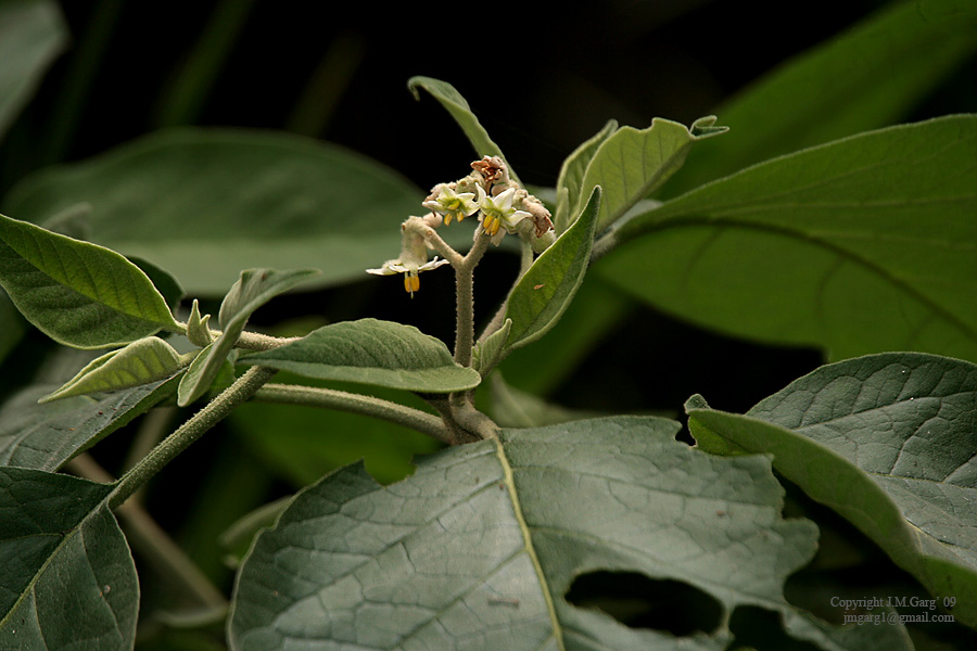 Solanum erianthum- Big Eggplant, China Flowerleaf, Mullein Nightshade, Potato-Tree, Potatotree, Tobacco Nightshade, Tobacco-Tree - in Hyderabad, India.